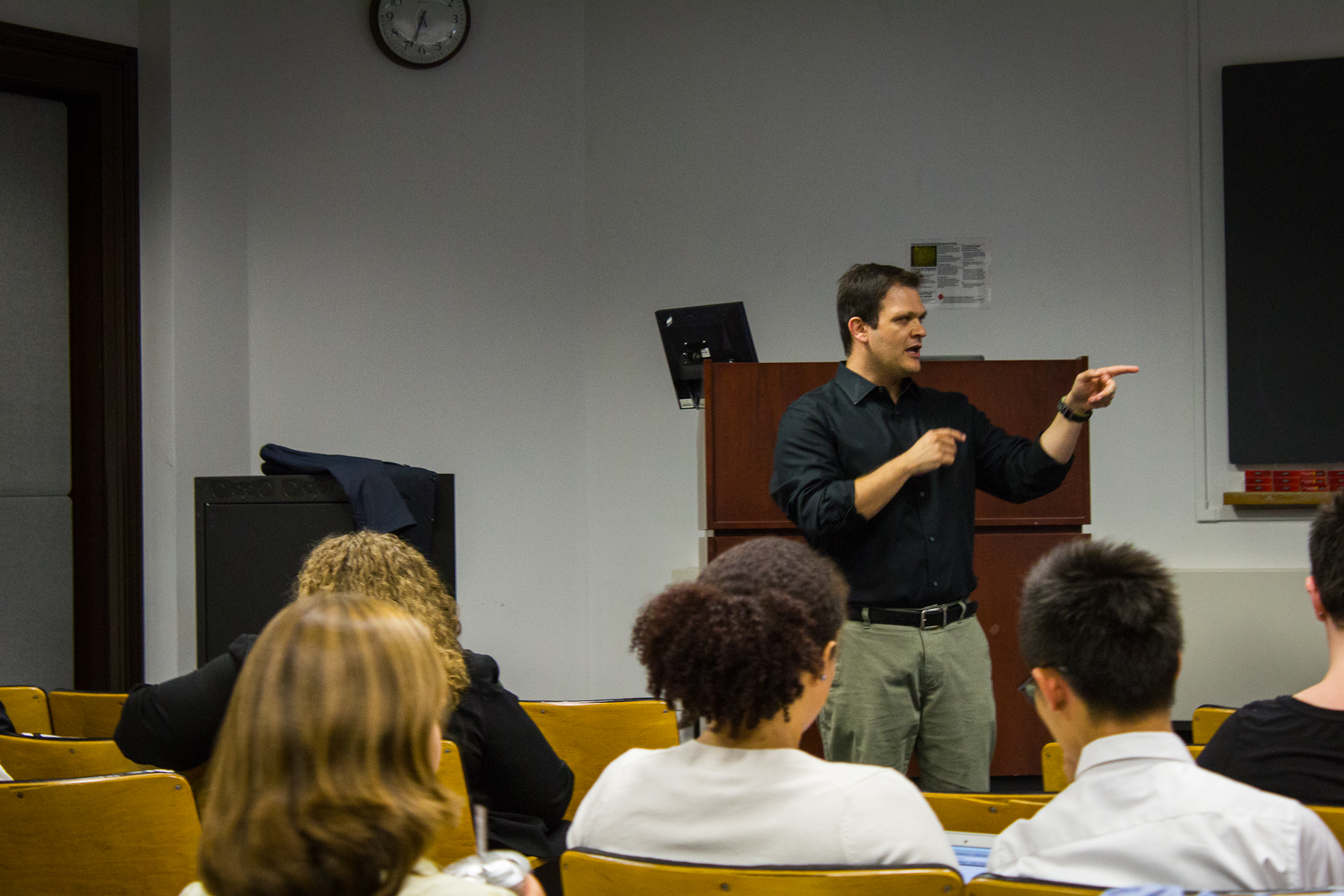 Image from a lecture